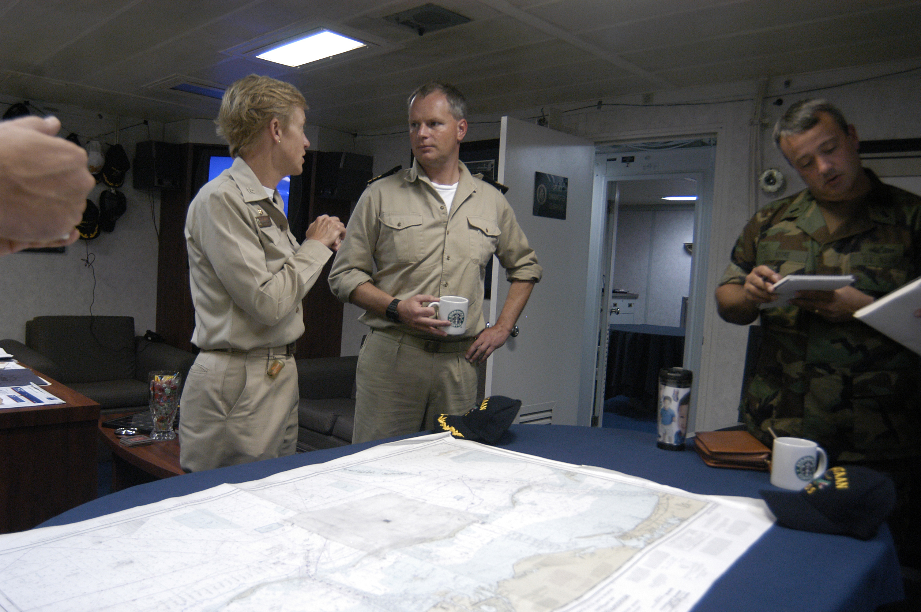 Gulf of Mexico (Sept. 7, 2005) - Commanding Officer, USS Bataan (LHD 5), Capt. Nora Tyson, left, speaks with the commanding officer of the Dutch Navy frigate Van Amstel (F 831) about where the Dutch sailors can assist along the Gulf Coast. Van Amstel is currently conducting operations off the coast of Biloxi, Miss. to assist with Hurricane Katrina relief efforts. The Navy's involvement in the Hurricane Katrina humanitarian assistance operations is led by the Federal Emergency Management Agency (FEMA), in conjunction with the Department of Defense. U.S. Navy photo by Photographer's Mate Airman Jeremy L. Grisham (RELEASED)